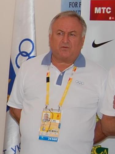 Valeriy Borzov visiting the Ukrainian Embassy in Beijing in August 2008.